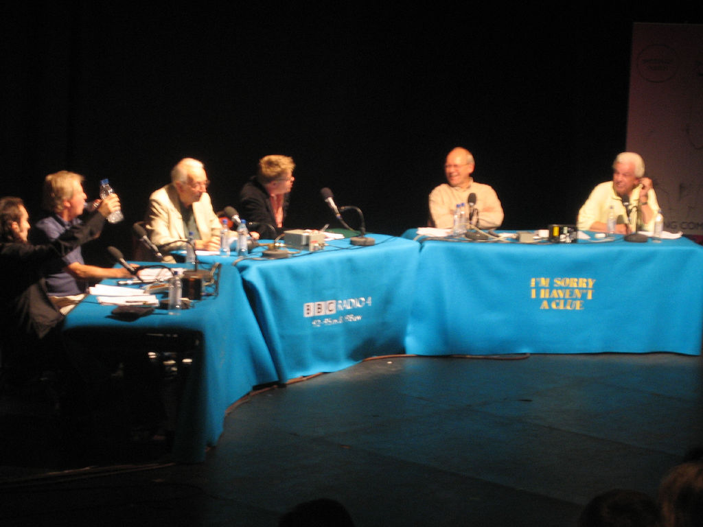 (L-R) Ross Noble, Tim Brooke-Taylor, Humph, the producer, Graeme Garden and Barry Cryer during a 2005 recording of I'm Sorry I Haven't a Clue at the Edinburgh Fringe